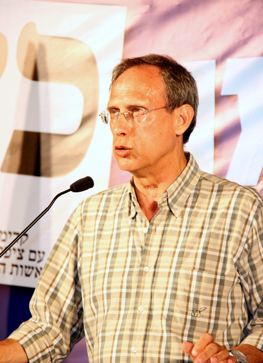 MK Nahman Shai, Kadima Party (Israel). Photo by: Itzik Edri, Kadima Party PR Team